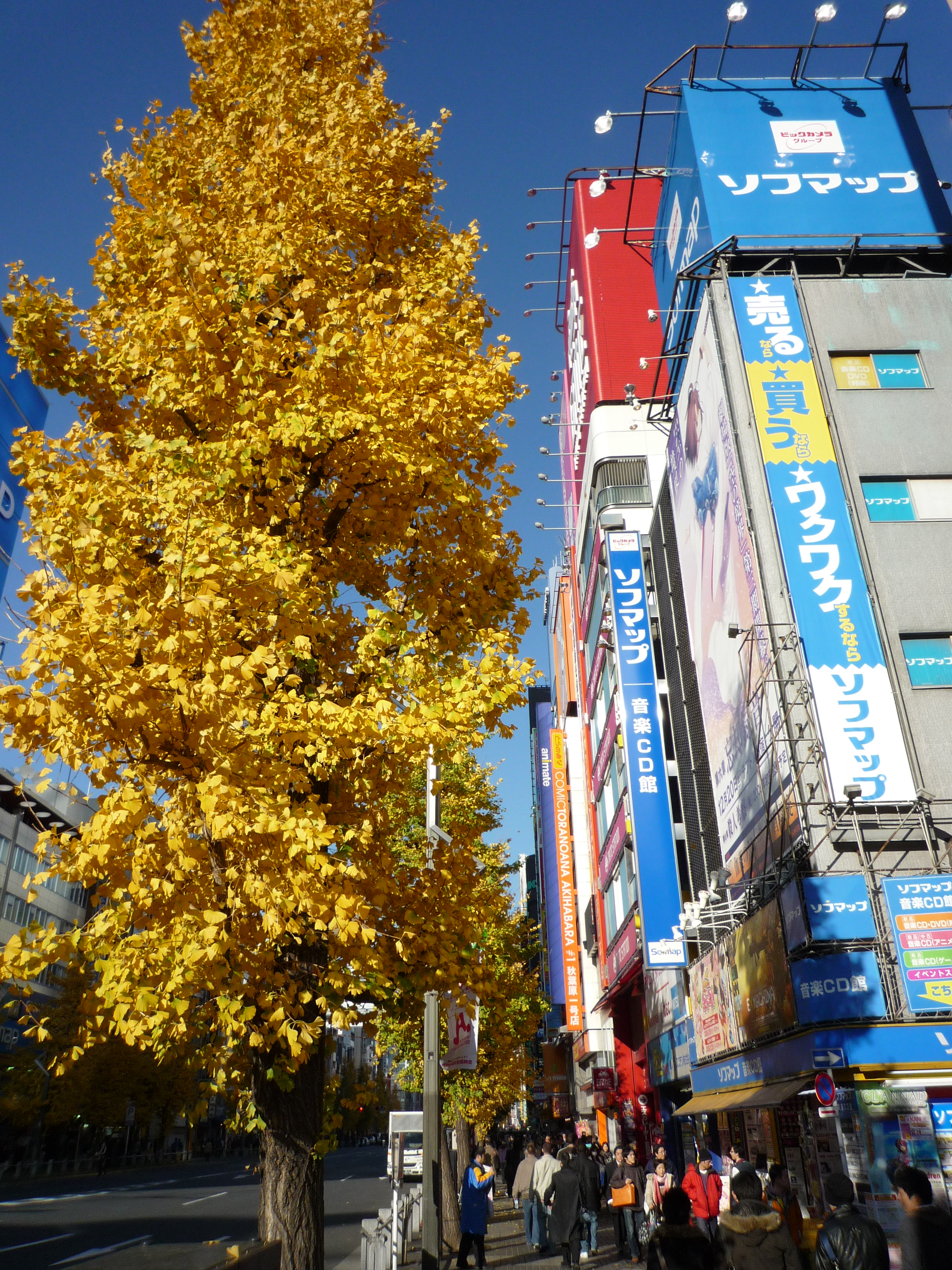 Ginkgo tree with yellow leaf by the side of Sofmap Music CD Shop at Akihabara, Tokyo